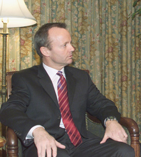 Stockwell Day, Canadian politician